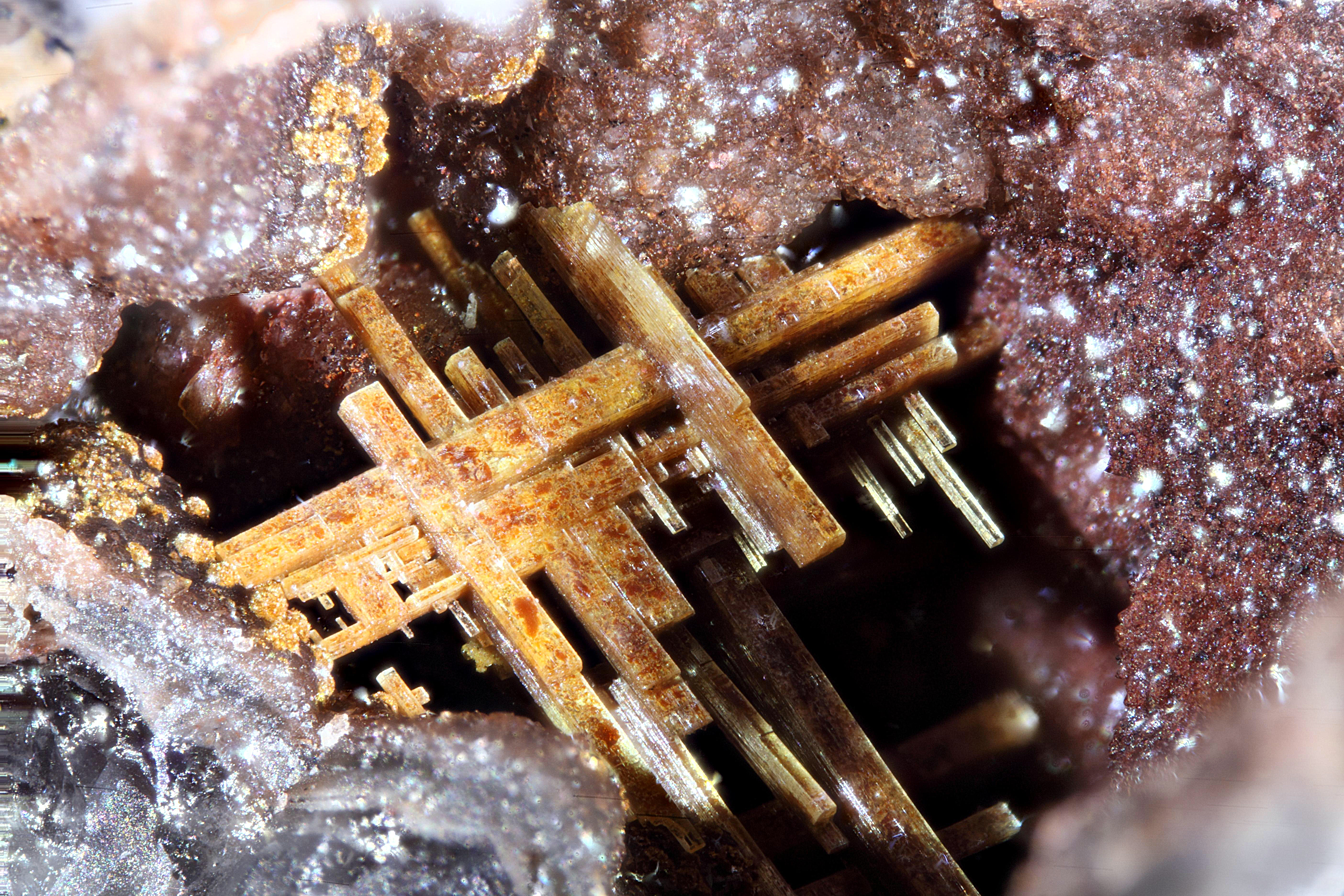 Brown, lath-like arsenuranospathite from Grube Krunkelbach (Krunkelbach Mine), Menzenschwand, Germany (Field of view: 11.5 mm)